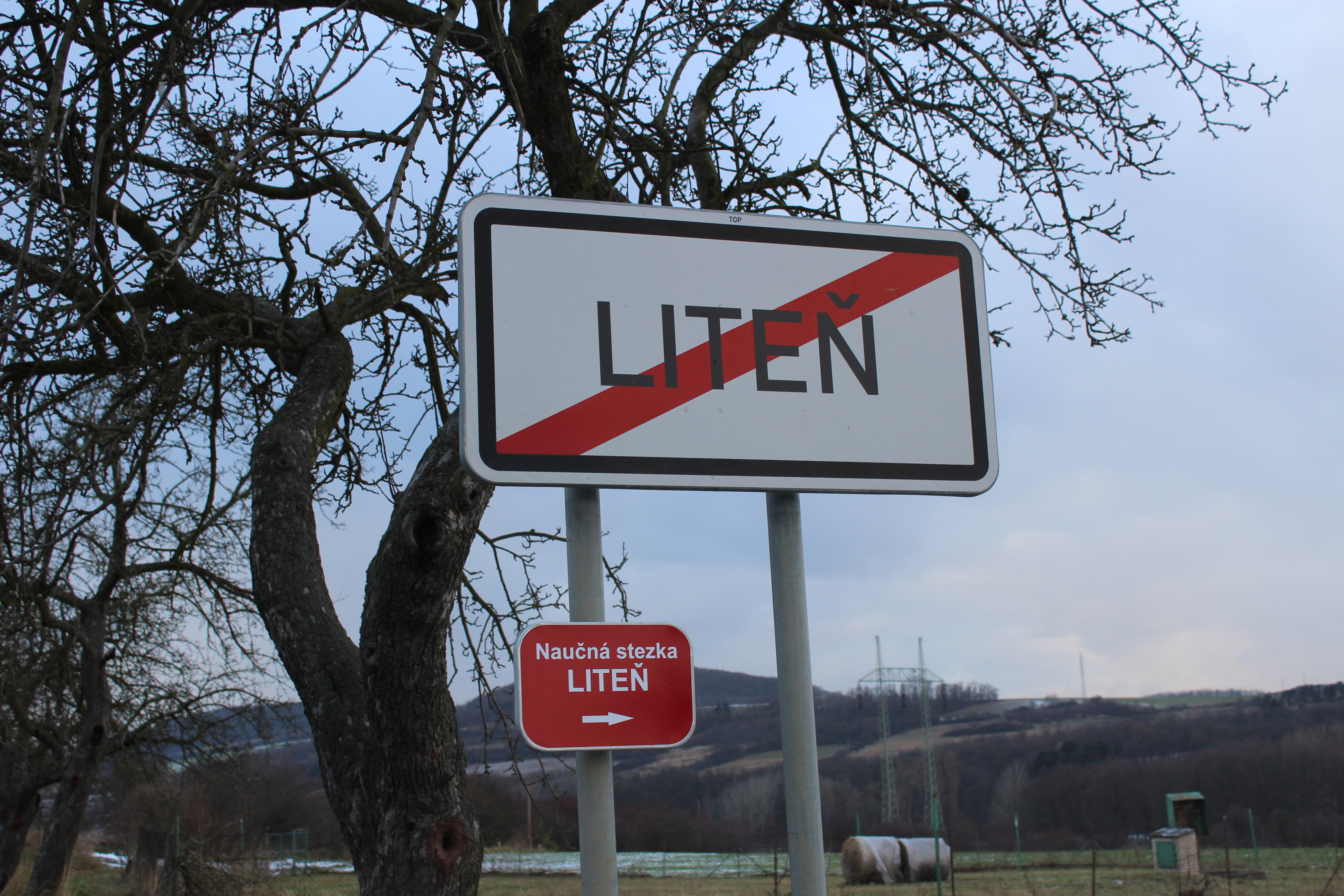 Educational trail Liteň